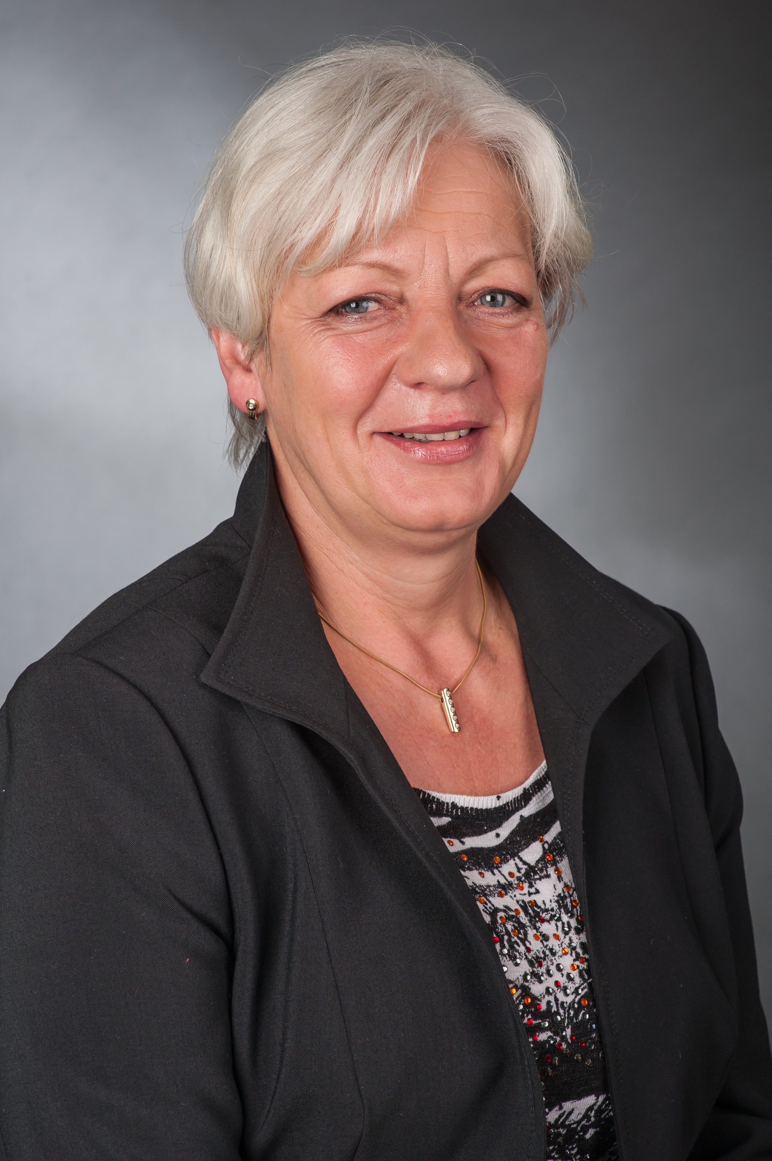 Wikipedia im Landtag – Niedersachsen 17. bis 18. April 2013 in Hannover Personality rights warningAlthough this work is freely licensed or in the public domain, the person(s) shown may have rights that legally restrict certain re-uses unless those depicted consent to such uses. In these cases, a model release or other evidence of consent could protect you from infringement claims.